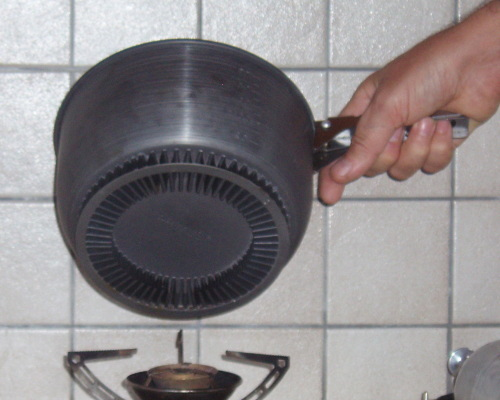 A Primus EtaPoweran aluminum pot with heat exchanger fins billycan, showing its integrated heatsink